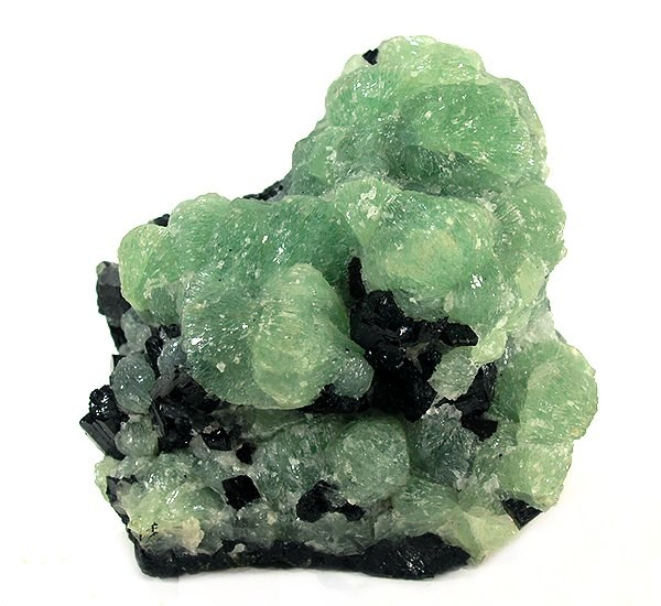 Babingtonite, Prehnite Locality: Lane & Sons Traprock quarries, Westfield, Hampden County, Massachusetts, USA (Locality at ) Size: 5.7 x 5.5 x 3.1 cm. A classic combination from this old locale, some of these dating back to the turn of the 1900s. Sharp, jet-black, lustrous babingtonites to just over 1 cm accent beautiful translucent prehnite clusters. Ex. Martin Zinn Collection.